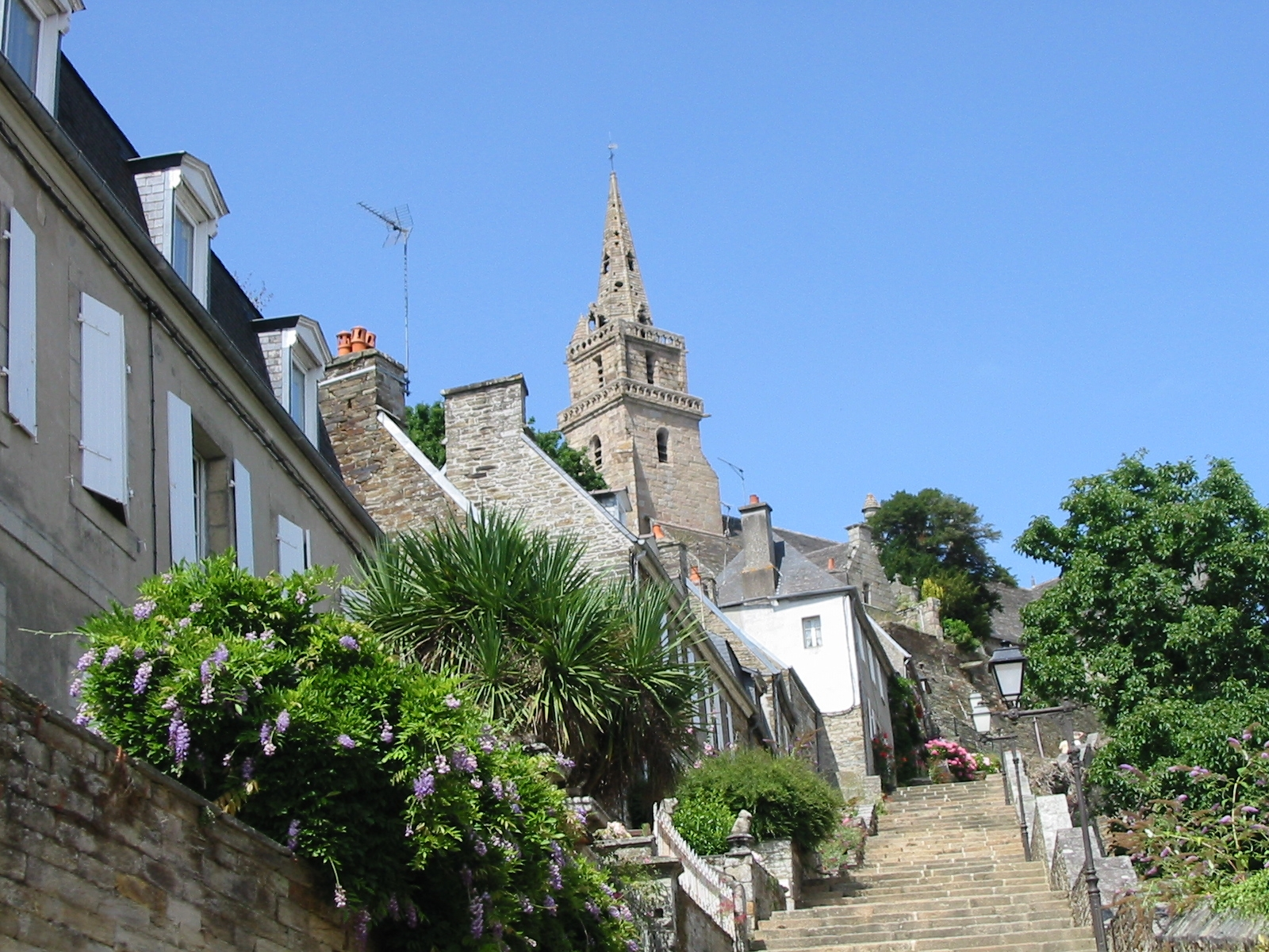 France : church in Lanion (Brittany)